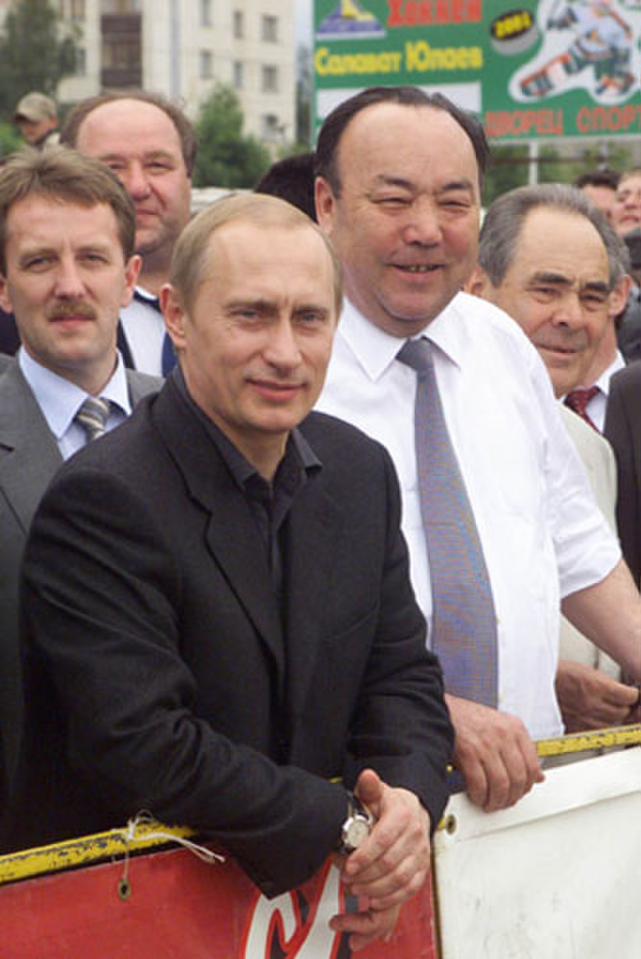 UFA. Watching a street football competition.